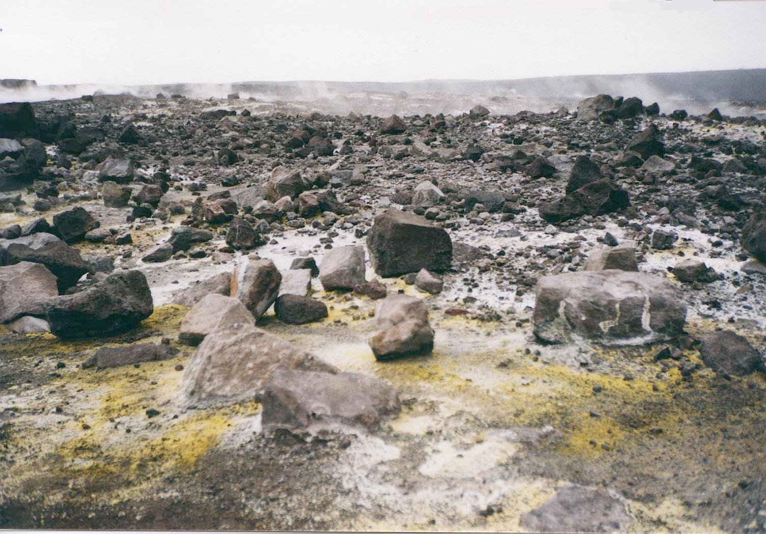 Sulphur deposit at the Halemaumau crater on Big Island, Hawaii